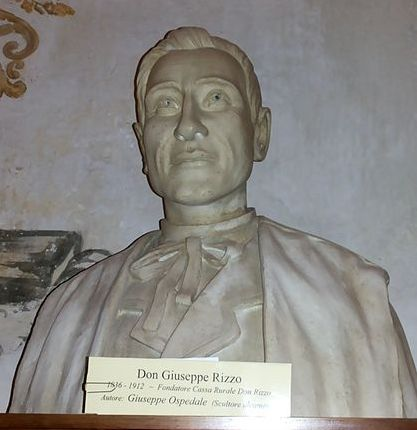 Statua a Don Giuseppe Rizzo, collocata all'interno della Biblioteca comunale di Alcamo.